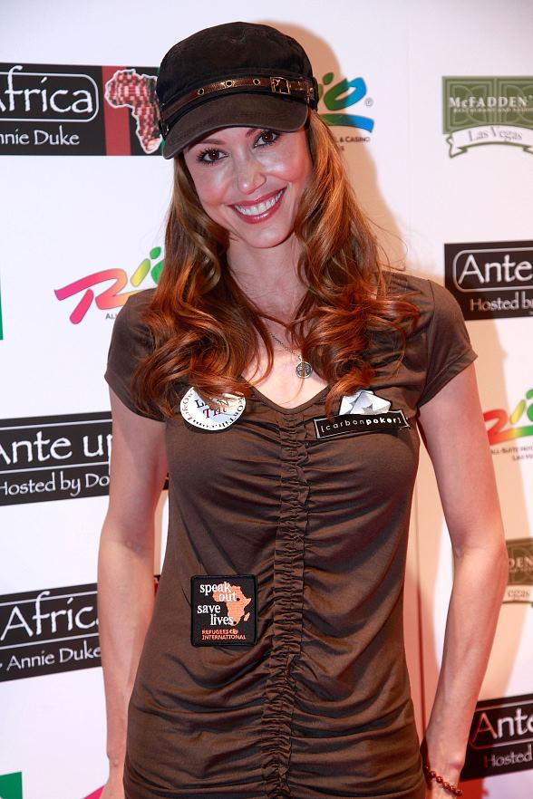 Photo of Shannon Elizabeth taken in July 2010